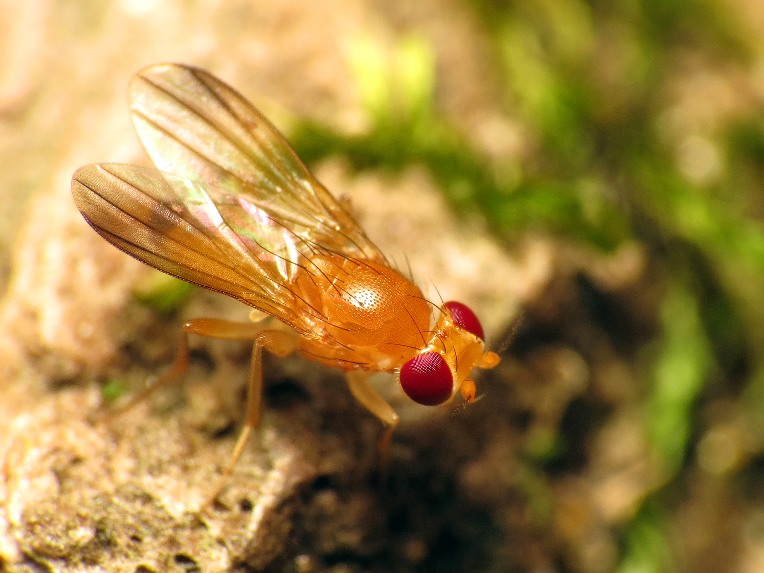 Sobarocephala flaviseta. Rock Creek Park, Washington, DC, USA